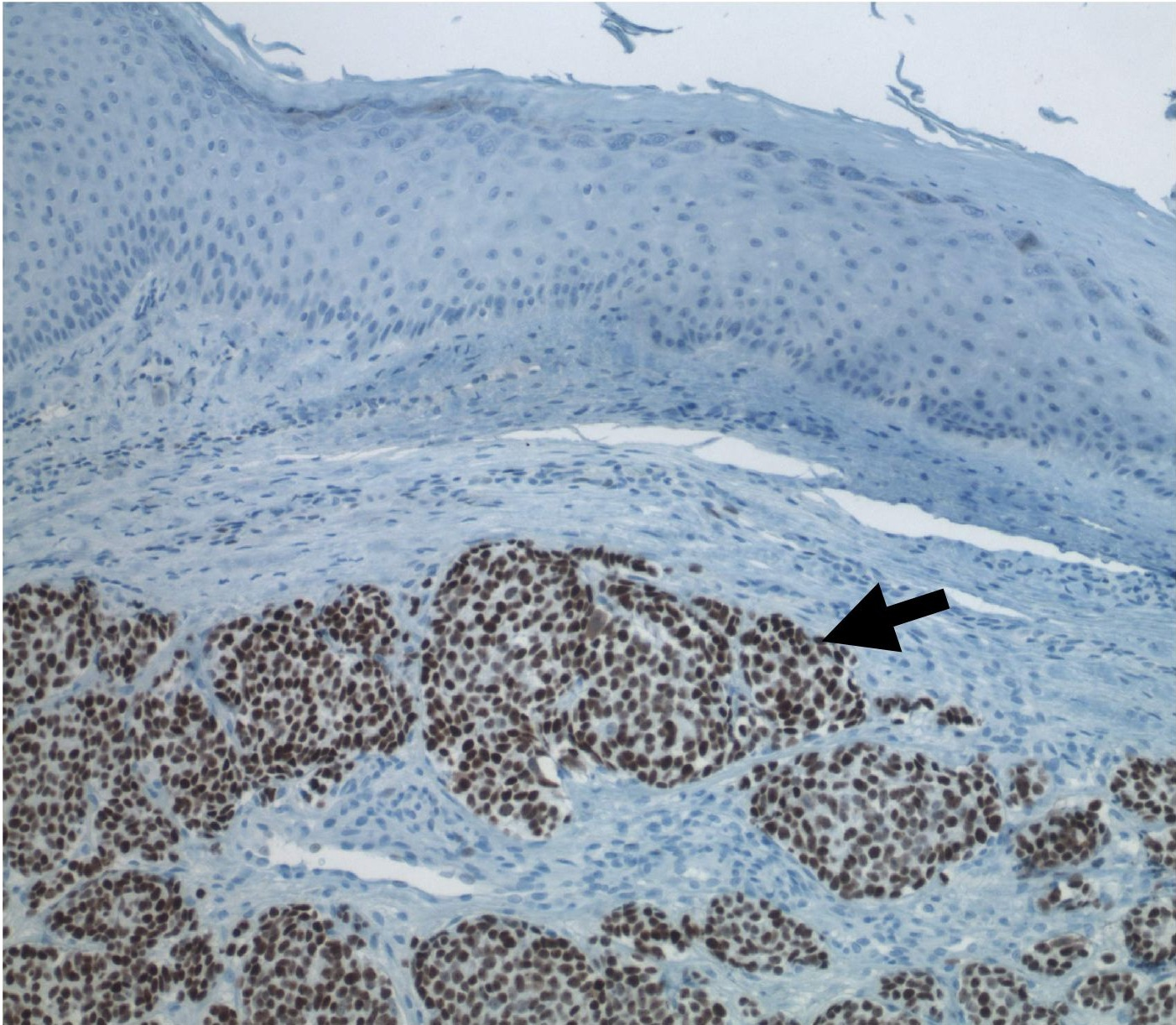 Photomicrograph of Merkel cell carcinoma infiltrating the skin (arrow). Tumor cell nuclei are stained brown by an antibody to the Merkel cell polyomavirus large T antigen.